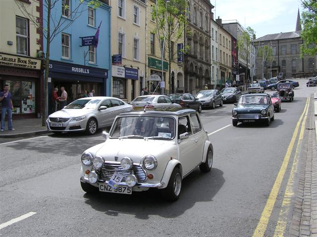 Marie Curie Action Care Rally, Omagh (19)